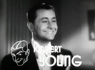 Cropped screenshot of Robert Young in the trailer for the film Dangerous Number